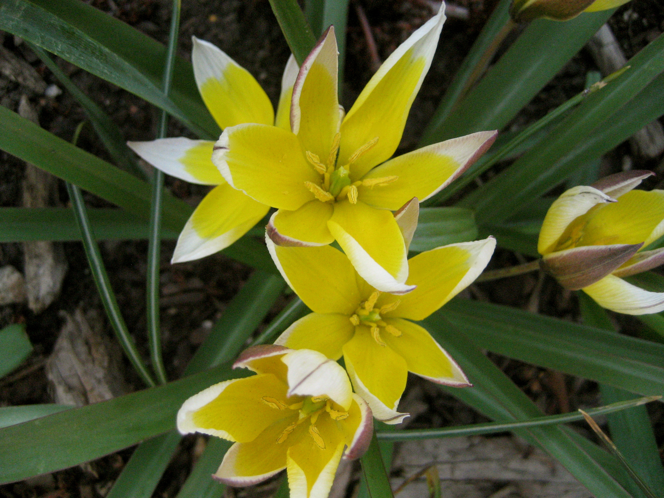 A picture of the Tulipen (Tulipa turkestanica en ), a species of tulip native to central Asia, notably in Turkistan. Photograph was captured in digital macro mode, on the north side of East 10th avenue, between Odgen st. and Emerson st., in the neighborhood called Capitol Hill, Denver, Colorado USA.